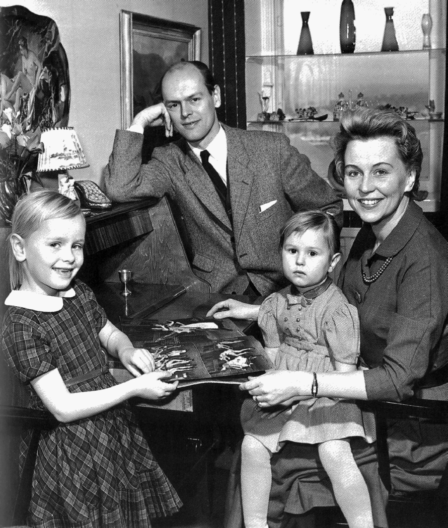 Photograph of the Finnish dancer Eva Hemming (1923–2007) with her family: actor Leif Wager (1922–2002) and their daughters Carmela (1954–) and Evita (1951–).